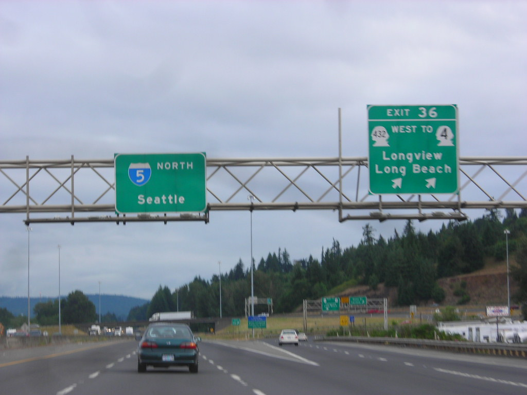 Interstate 5 northbound at the eastern terminus of Washington State Route 432 at the Longview Wye, located in Kelso, Washington.